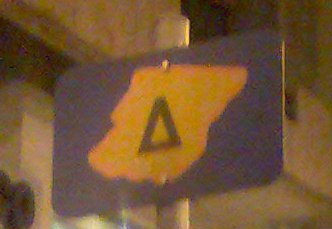 A sign of Daktylios from Athens. Essentially the sign warns about the limits of Daktylios.